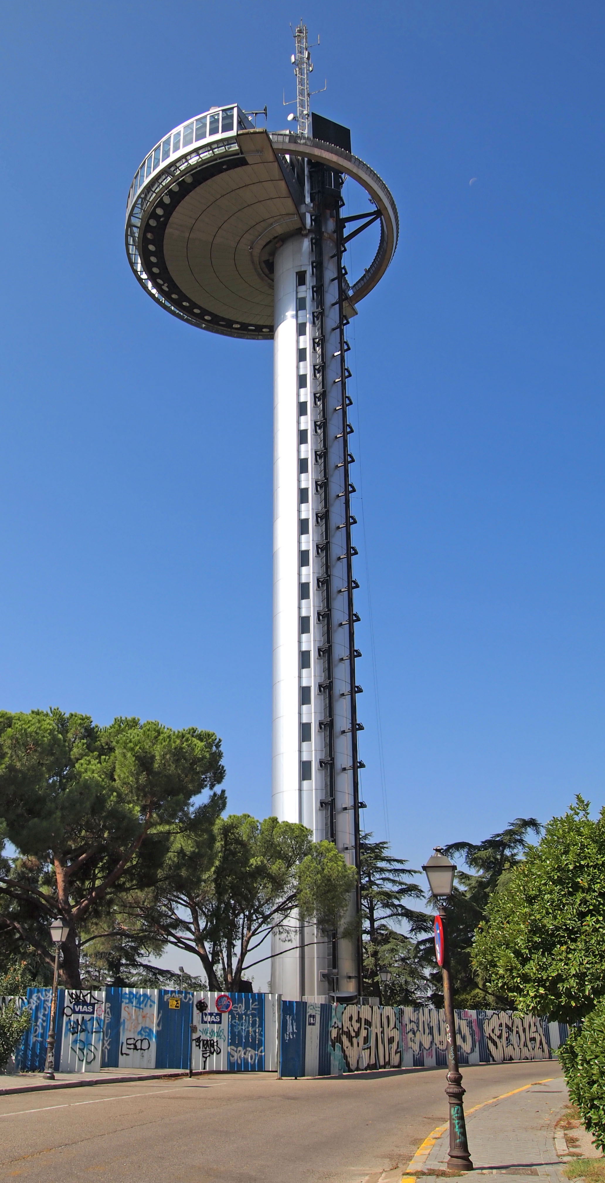 Tower Faro de Moncloa on street Av de los Reyes Católicos, Madrid. This photograph was taken with an Olympus E-PL1